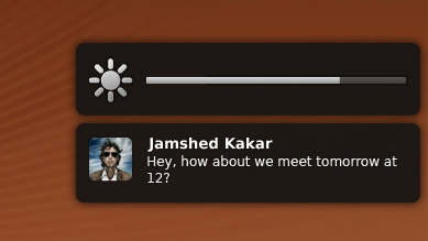 Sample messages from NotifyOSD